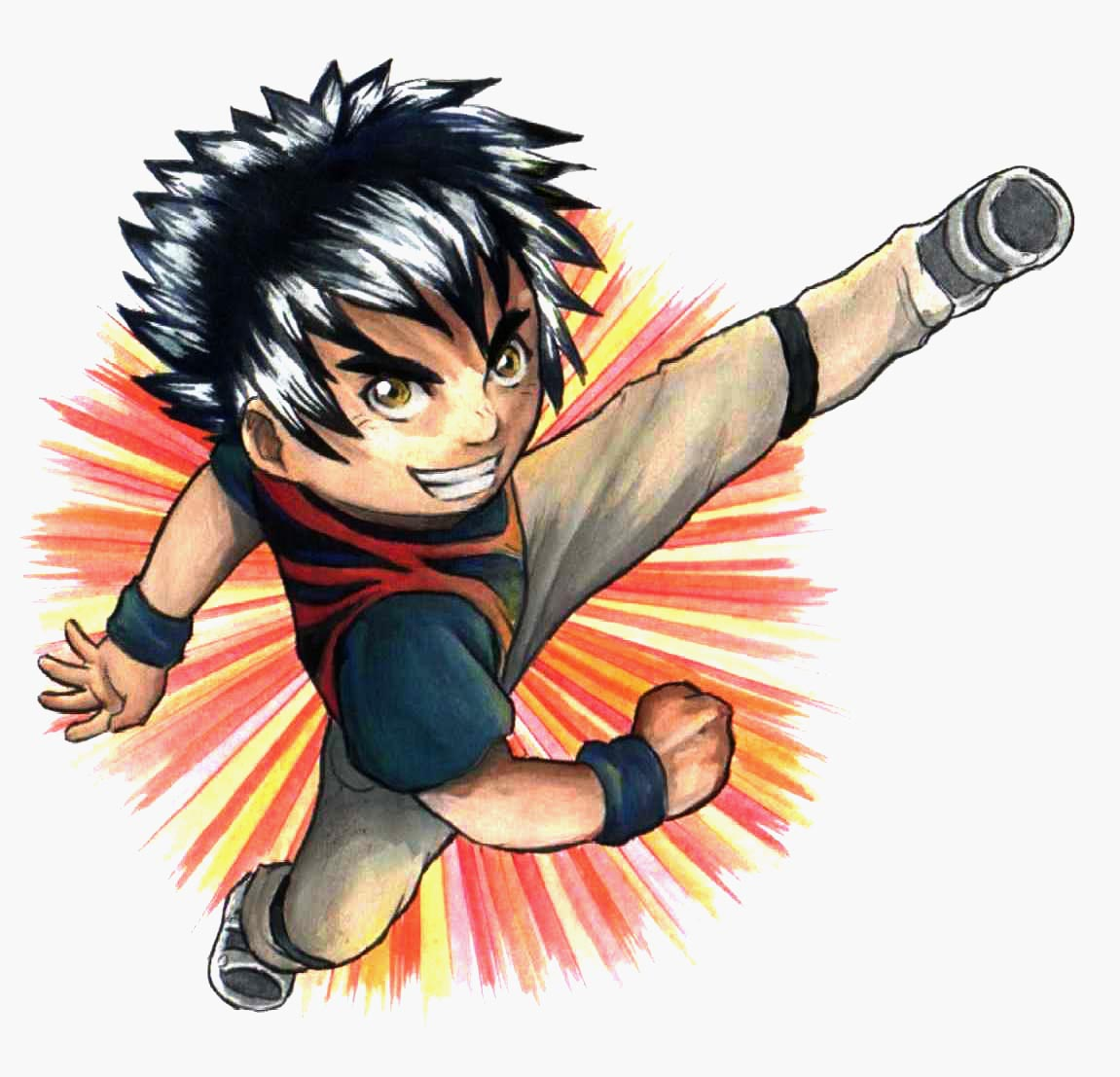 Picture of Jin from Manga-Fieber #2